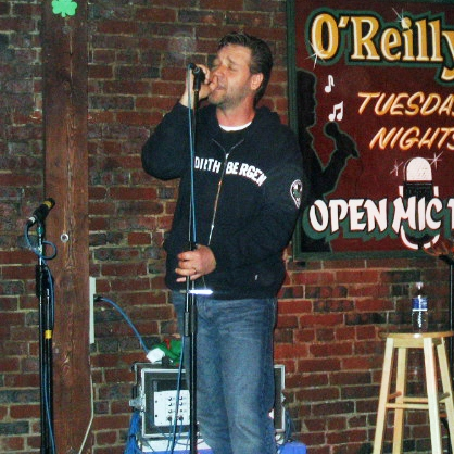 Russell Crowe